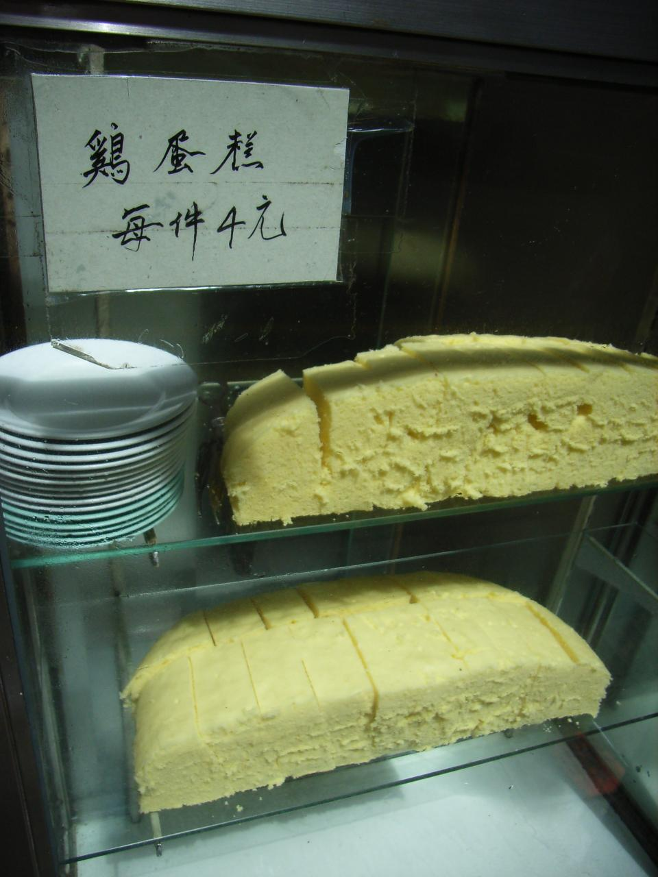 HK bakery Egg Cake 香港 雞zh:蛋糕